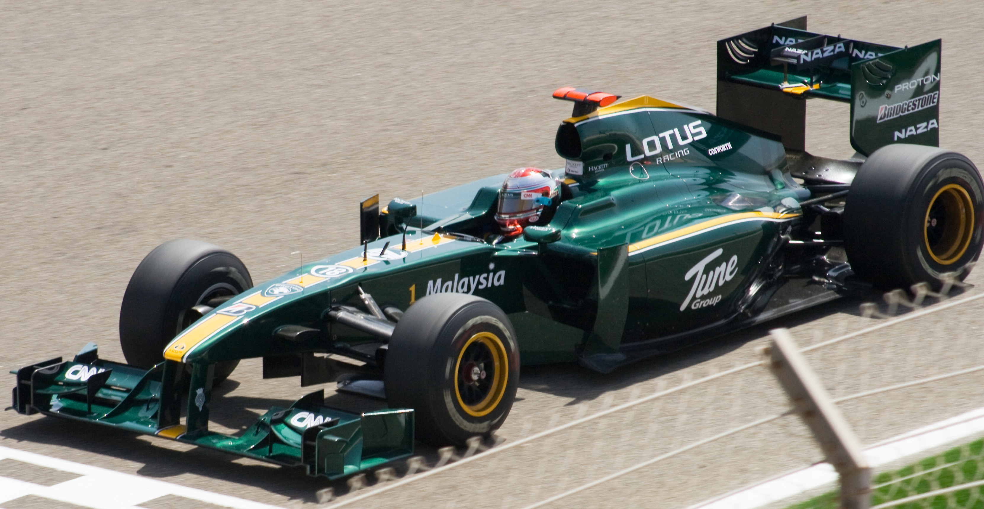 Lotus T127 in Bahrain